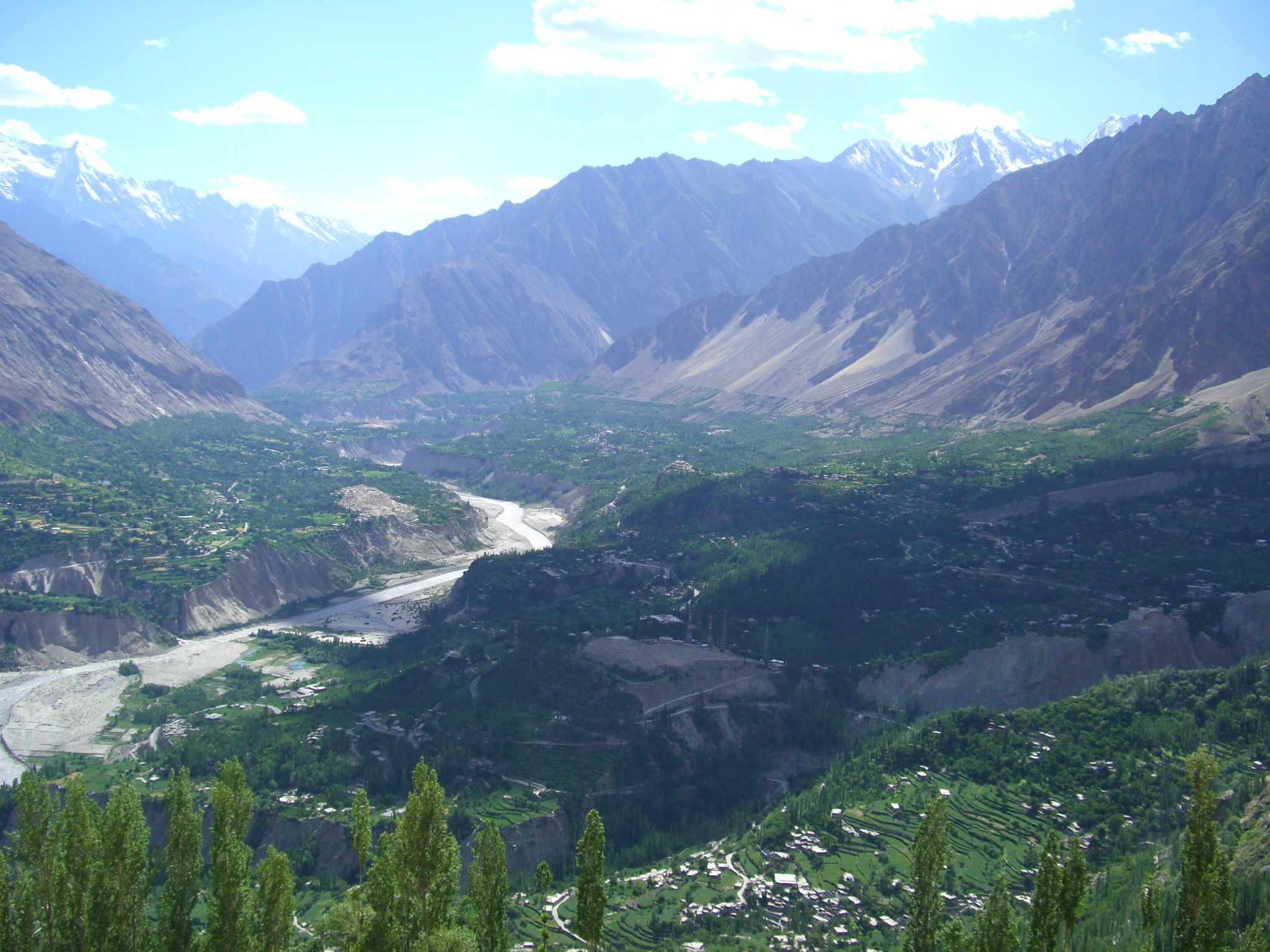 Picture of Hunza Valley from Eagle Point